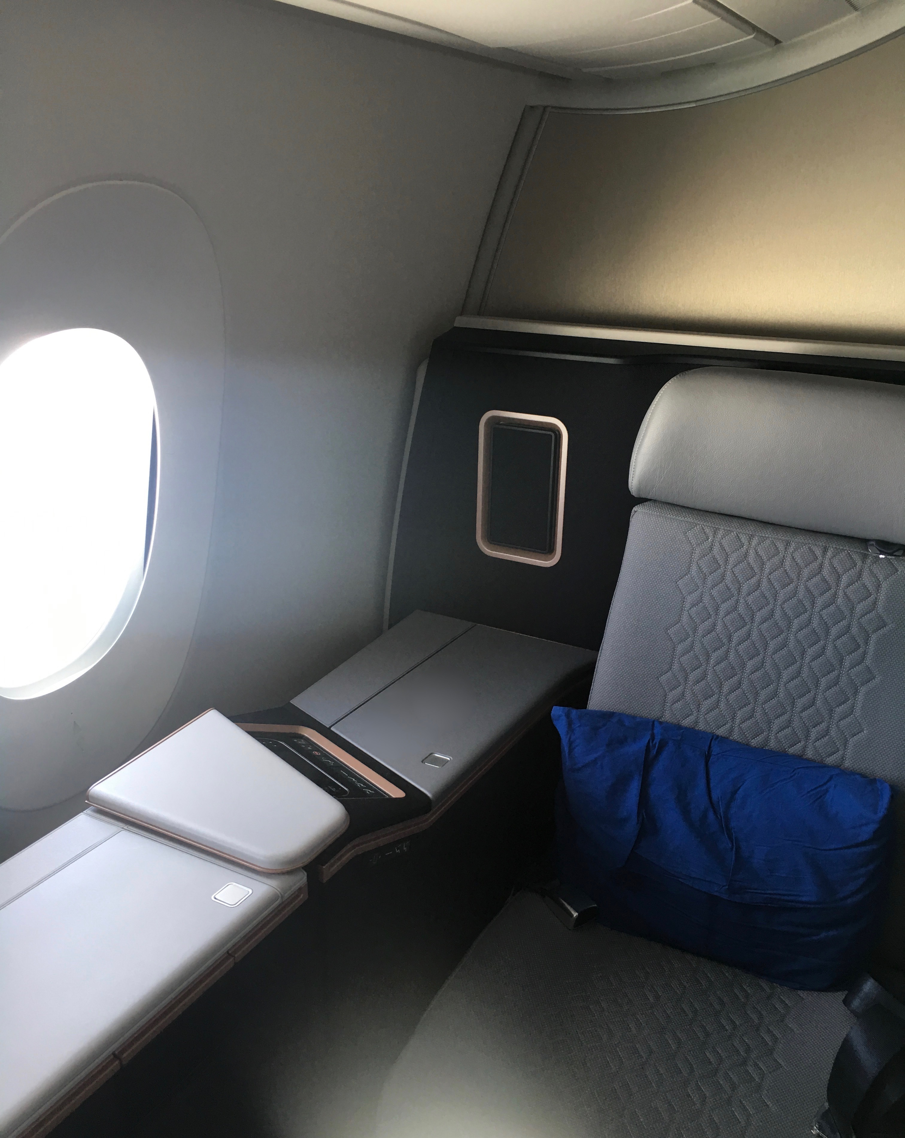 Malaysia Airlines First Class Suite on A350, inflight.